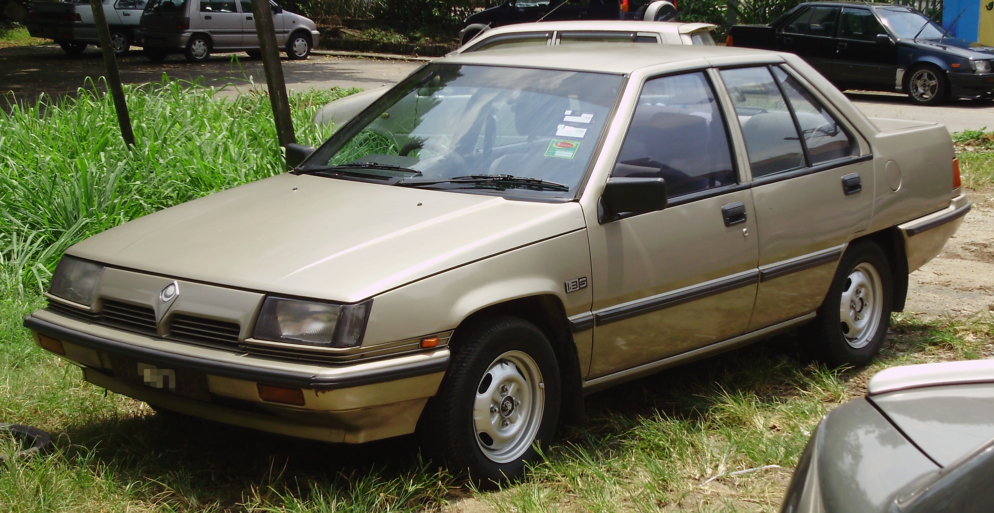 Front quarter view of a first generation, first facelift Proton Saga saloon (manual) in Pudu, Kuala Lumpur, Malaysia.